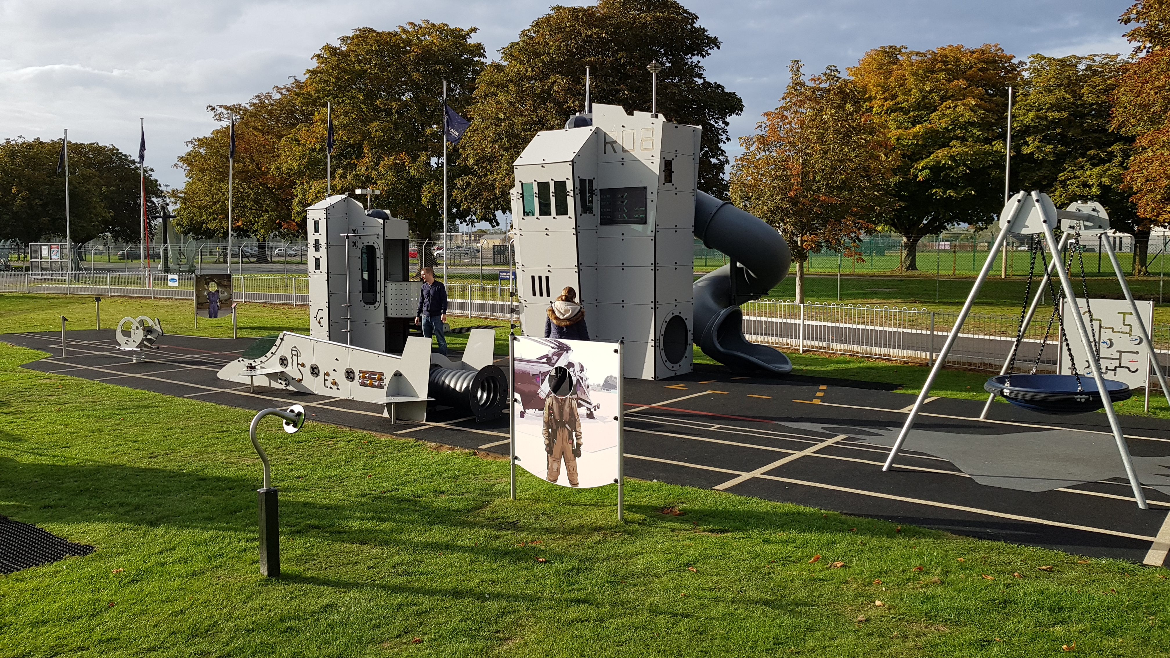 Outside the museum is a cafe/tea room, with a playground designed after the Royal Navy's new Queen Elizabeth class aircraft carriers.